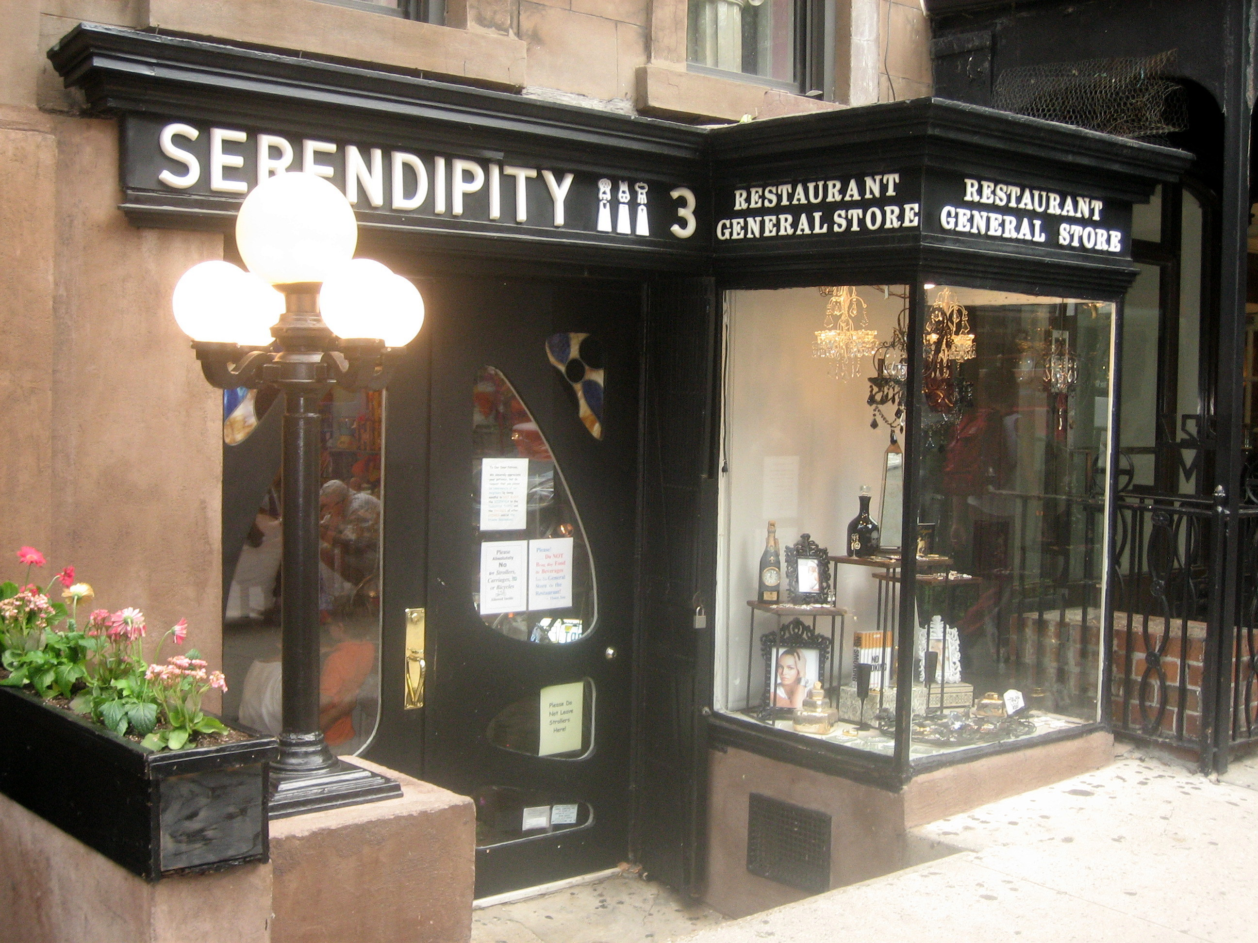 Entrance to Serendipity 3, the famous New York City dessert restaurant, as seen in the movies Serendipity and One Fine Day.